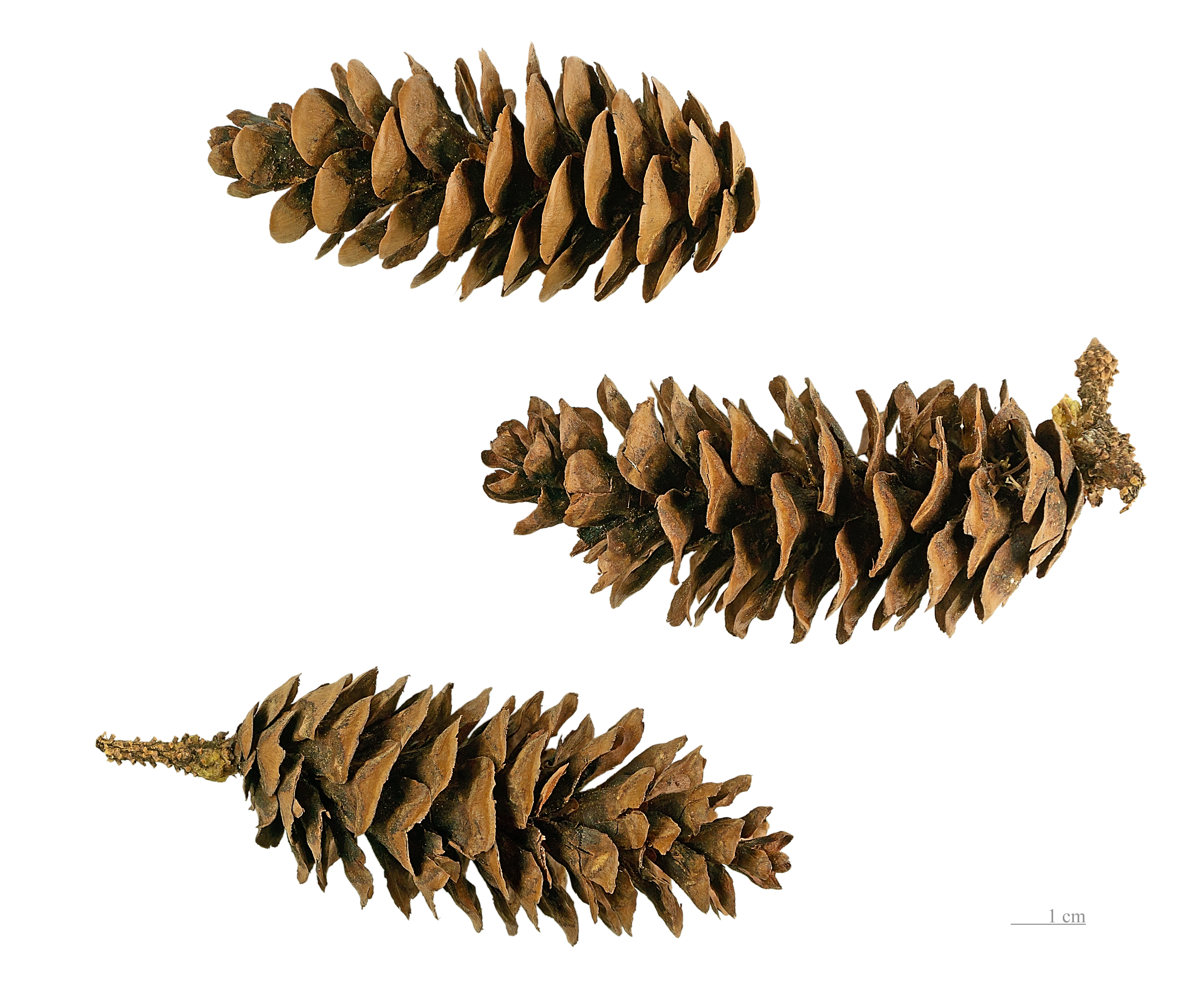 Cones of Oriental Spruce.